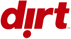 FX promotional logo for Dirt